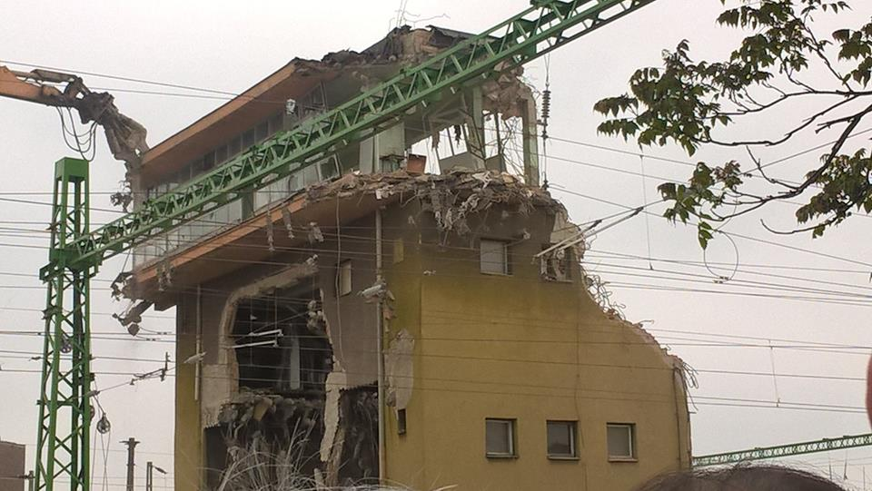 Demolition of Control Tower in Székesfehérvár Railway Station (Hungary)